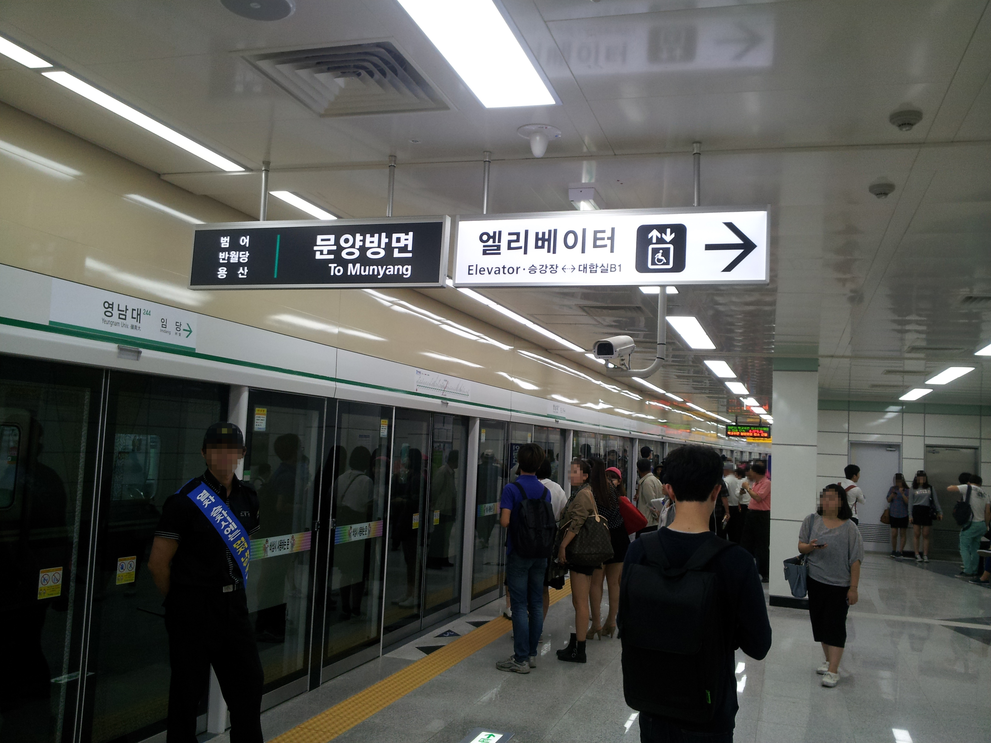 Yeungnam University stn.